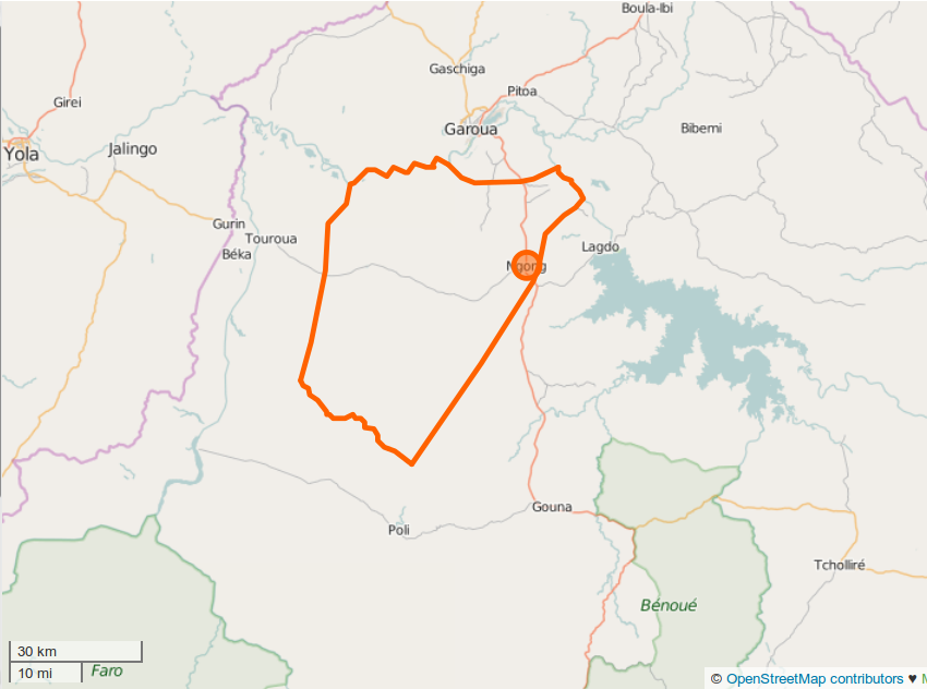 OSM map of Ngong, Cameroon ː commune boundaries. This map may be incomplete, and may contain errors. Don't rely solely on it for navigation.